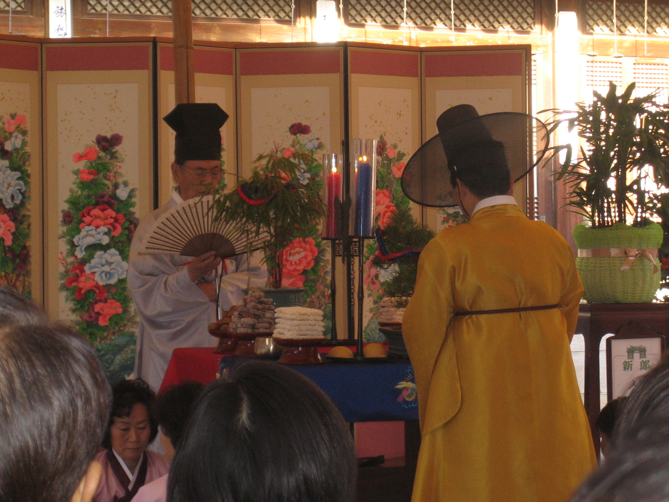 Korean wedding-Hollye